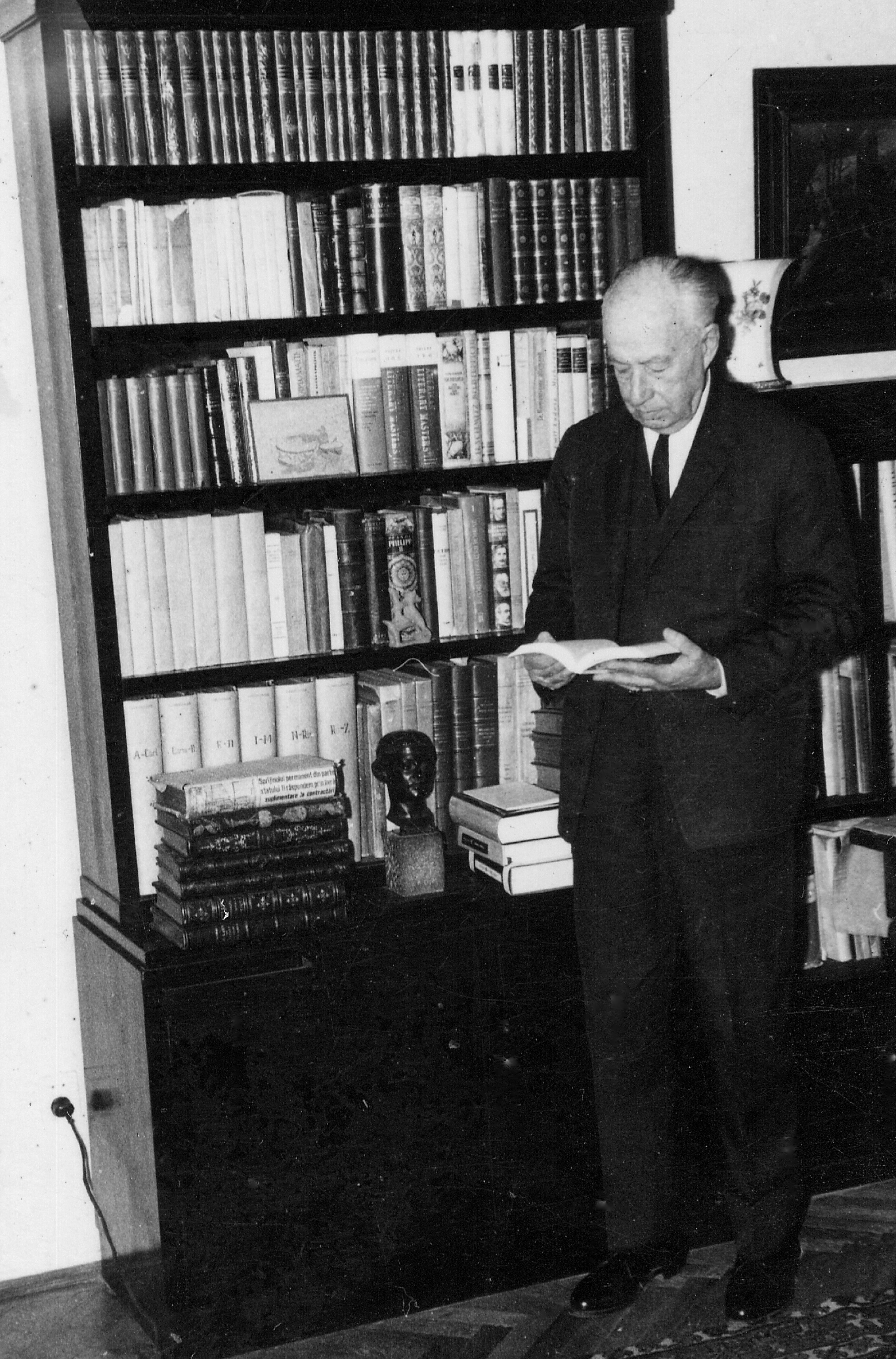 Eugen Filotti in 1971 at his residence in Str. Bujoreni of Bucureşti